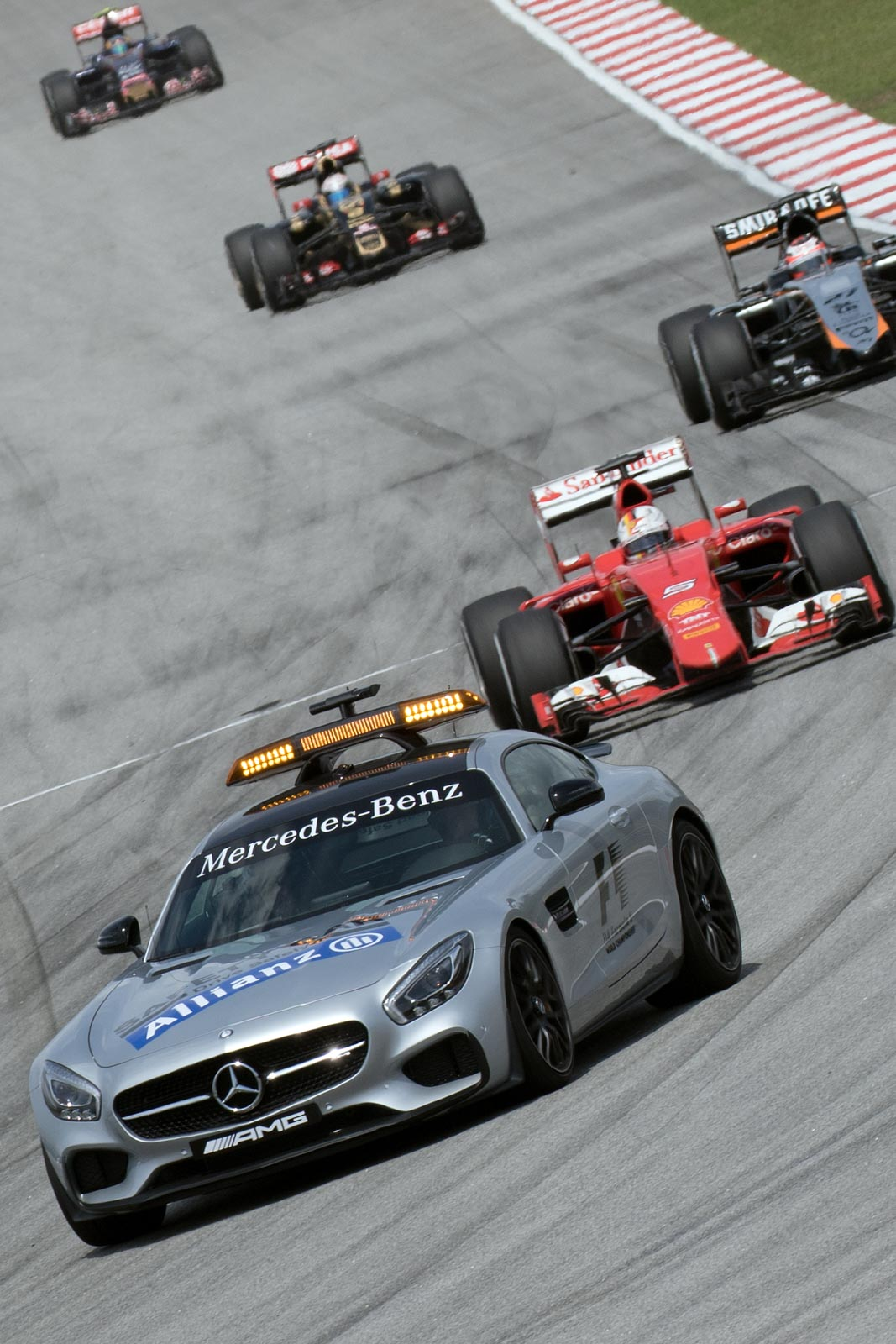 Formula One 2015 Rd.2 Malaysian GP: Mercedes-AMG GT S (C190) Safety Car with Sebastian Vettel.